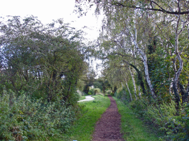 Neston (Moorside) - view along the Wirral Way